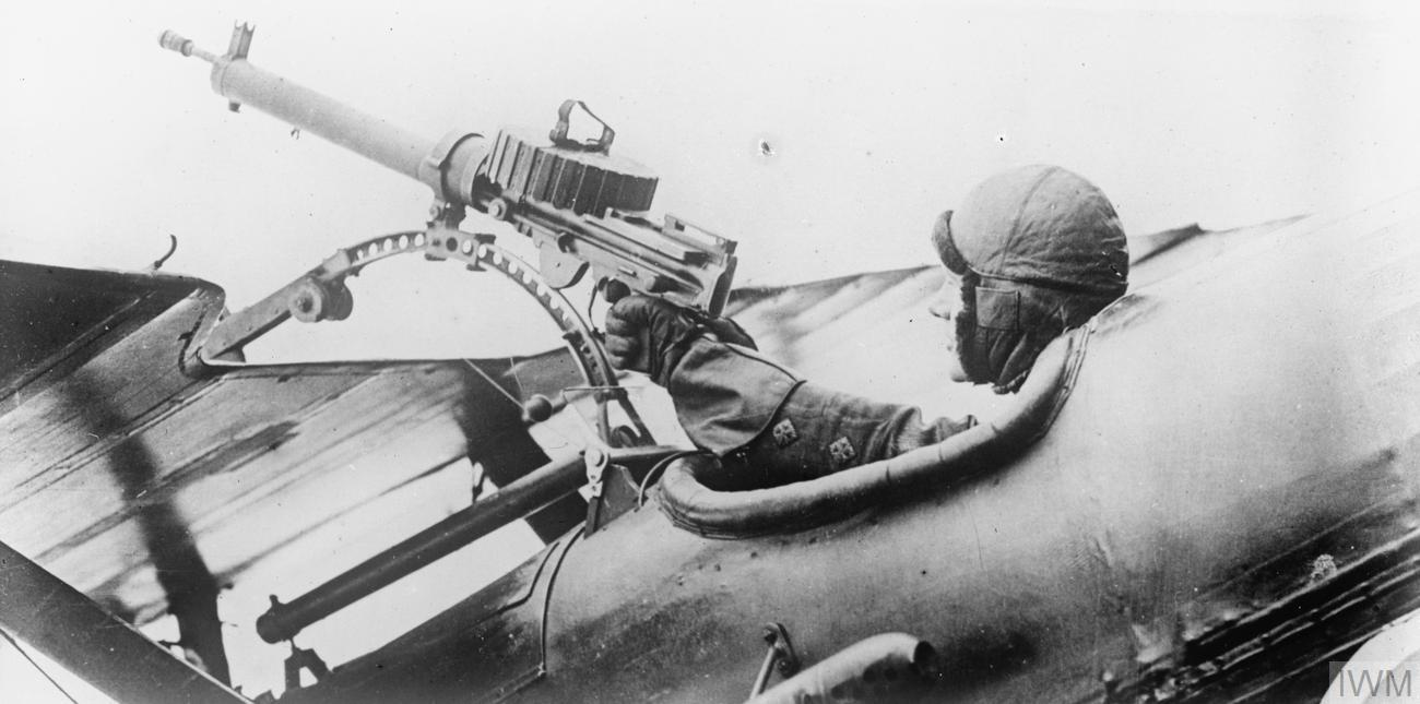 Photography Foster gun-mounting. Method of fixing a Lewis machine-gun over the upper plane of a S. E. 5. This was invented by a R. F. C. Sergeant Foster.